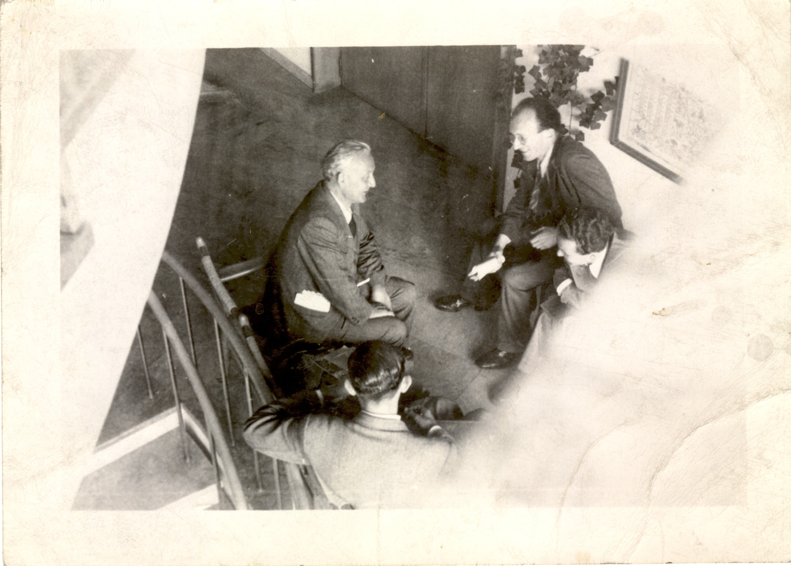 Albert Szent-Györgyi on the left Endre Bíró on the far right and Tamás Erdő and the person whose face cannot be seen is W.F.H.M. Mommaerts at the 6th Internation Congress of Cytology in Stockholm.